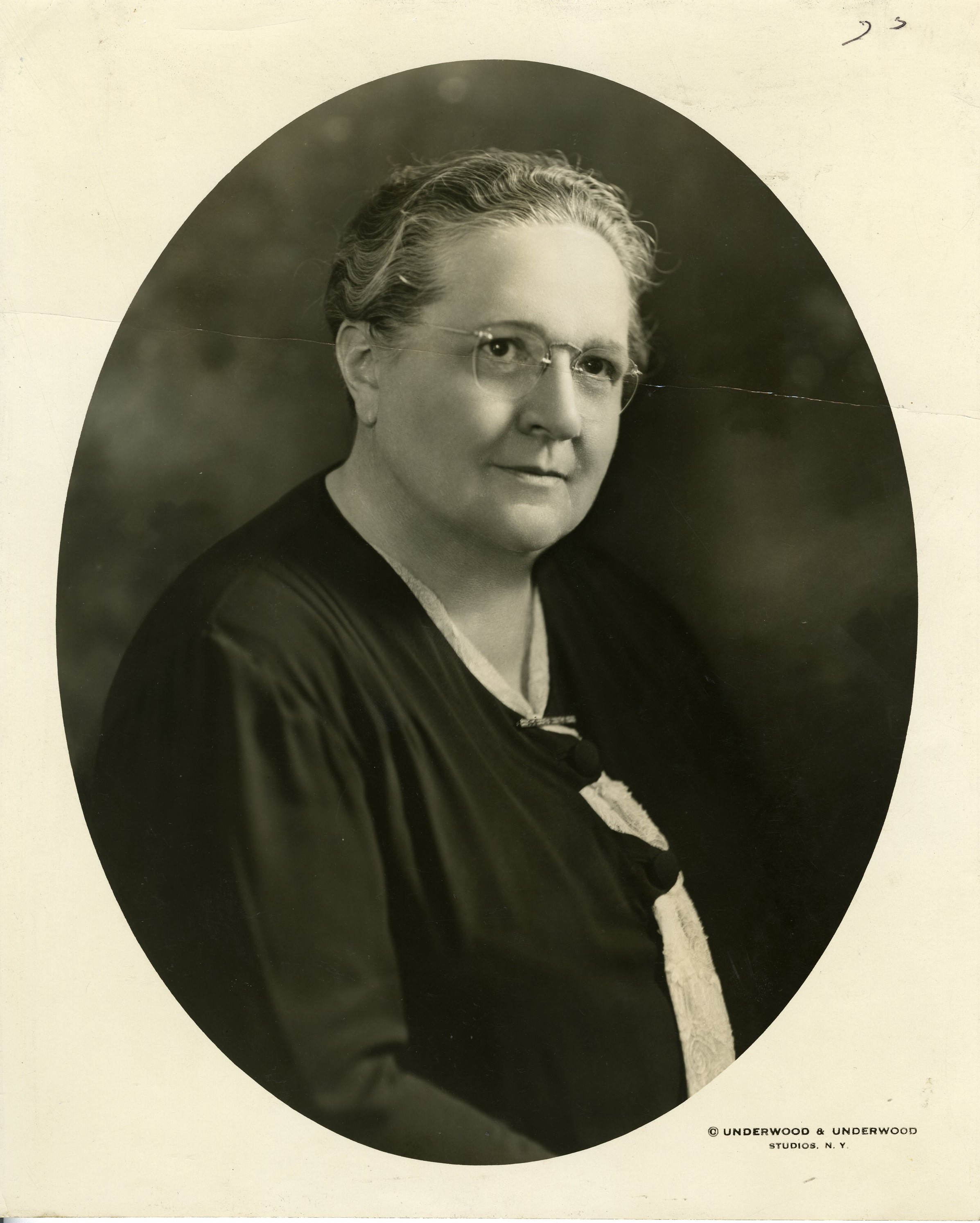 Lucy D. Taylor was an author, educator, and leading authority on interior decoration during the first half of the 20th century. Contributing Editor of House Beautiful 1922-ca.1935. Pupil of Albert Munsell (Of the Munsell Color System) Taylor was a member of the New York School of Interior Design Faculty from 1928-1950.